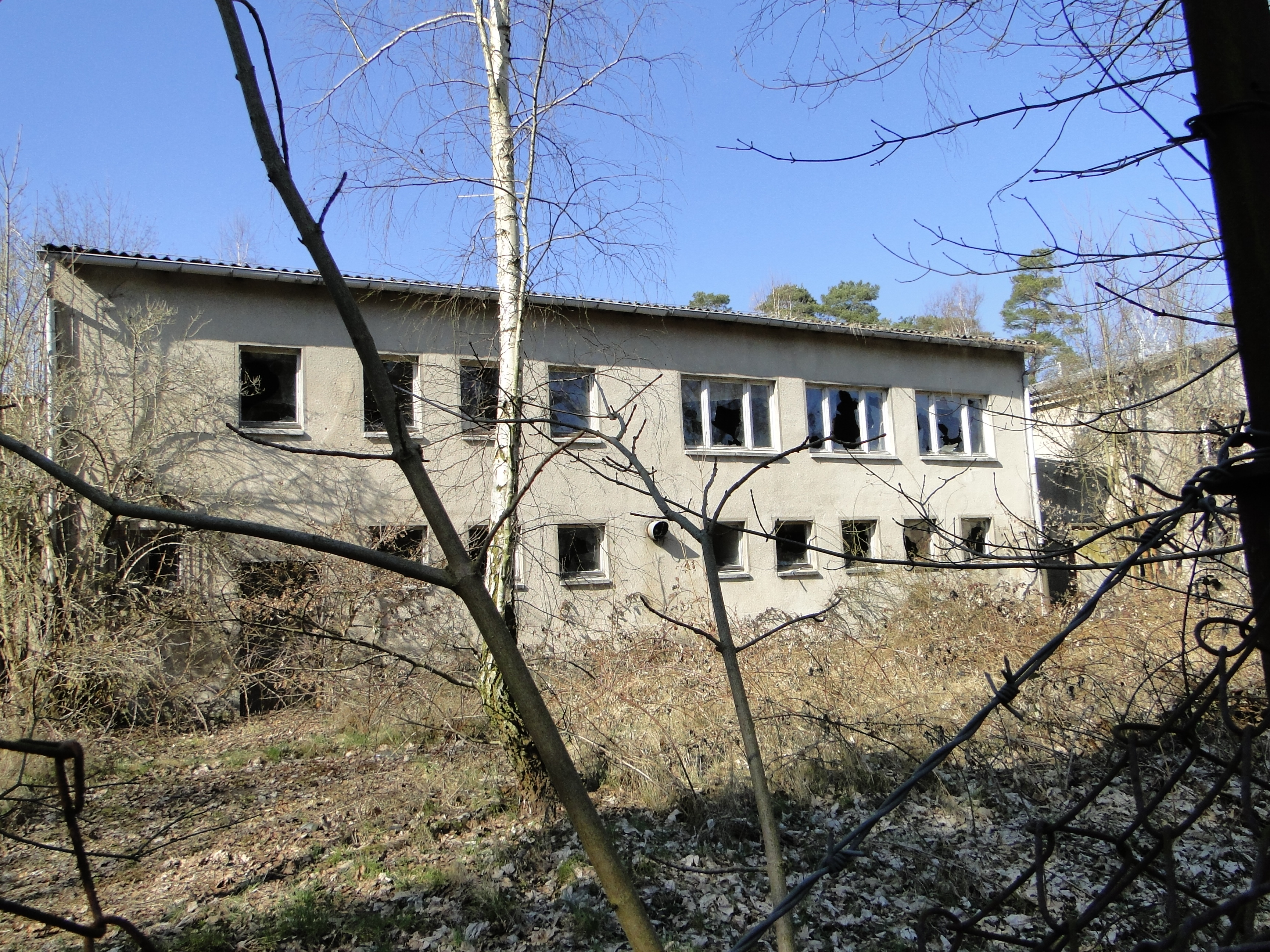 Former Artur-Becker-Kaserne (barracks) in Goldberg, district Ludwigslust-Parchim, Mecklenburg-Vorpommern, Germany